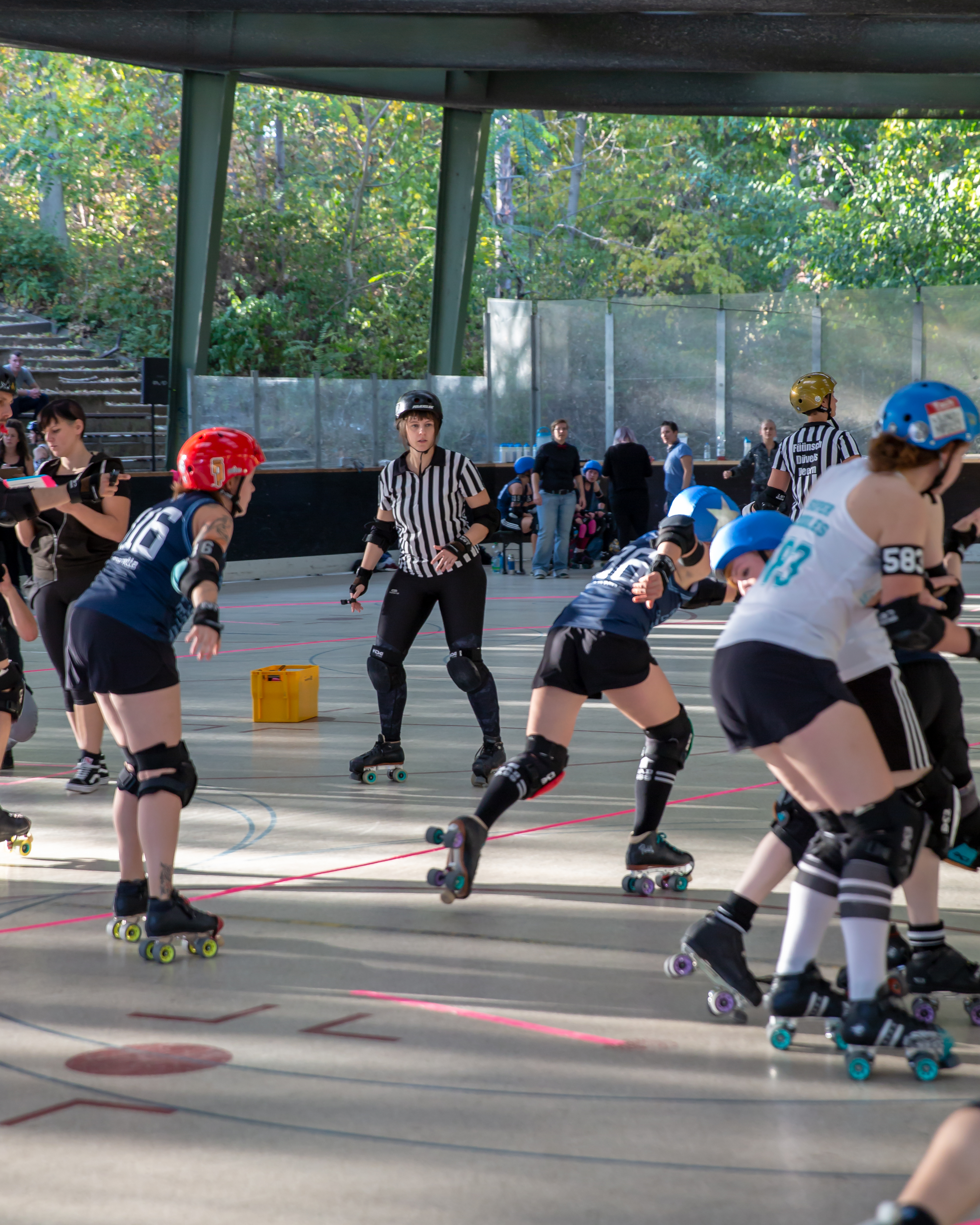 Berlin Rollt;Berlin Rollt 2018